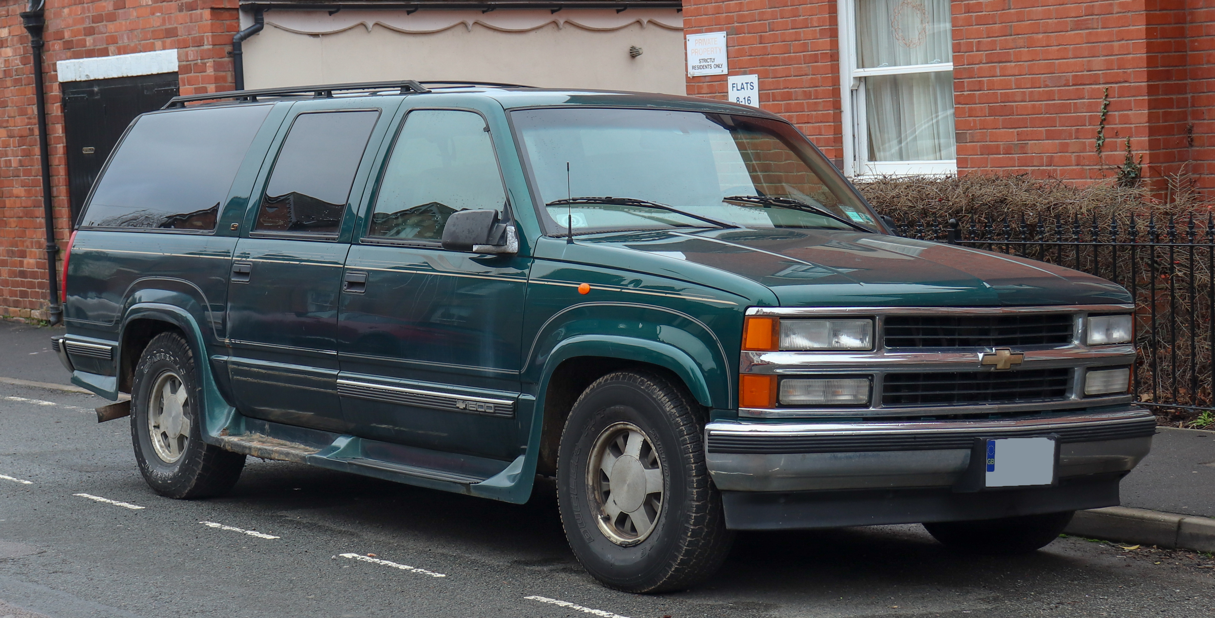 1997 Chevrolet Suburban 5.7 Front Taken in Leamington Spa